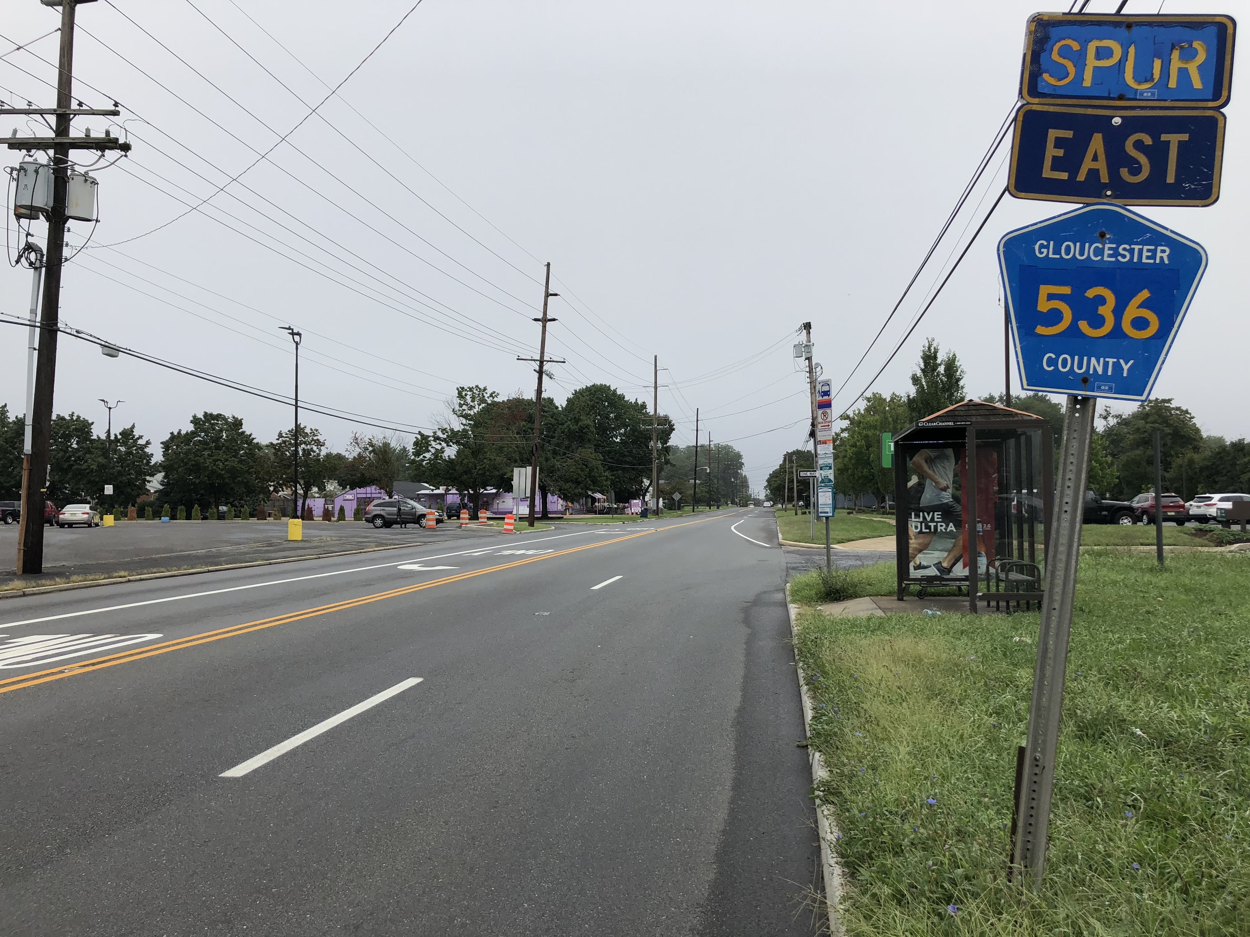 View east along Gloucester County Route 536 Spur (Sicklerville Road) just east of U.S. Route 322 and New Jersey State Route 42 (Black Horse Pike) in Monroe Township, Gloucester County, New Jersey